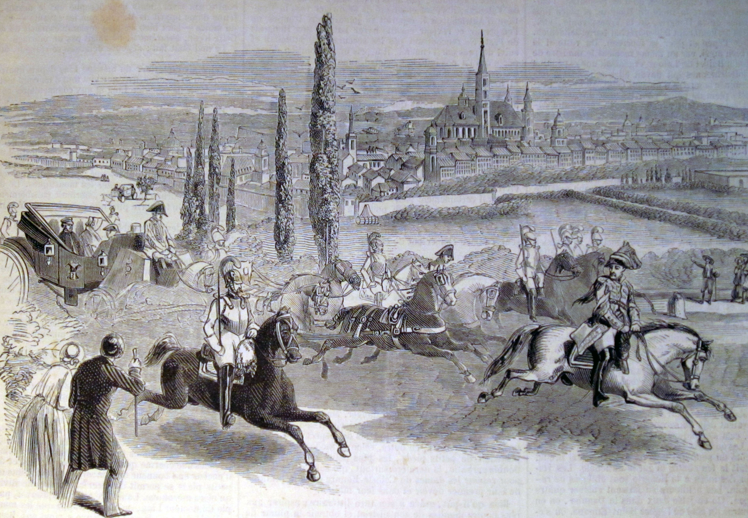 Escape of the Austrian Emperor from Vienna, 1848